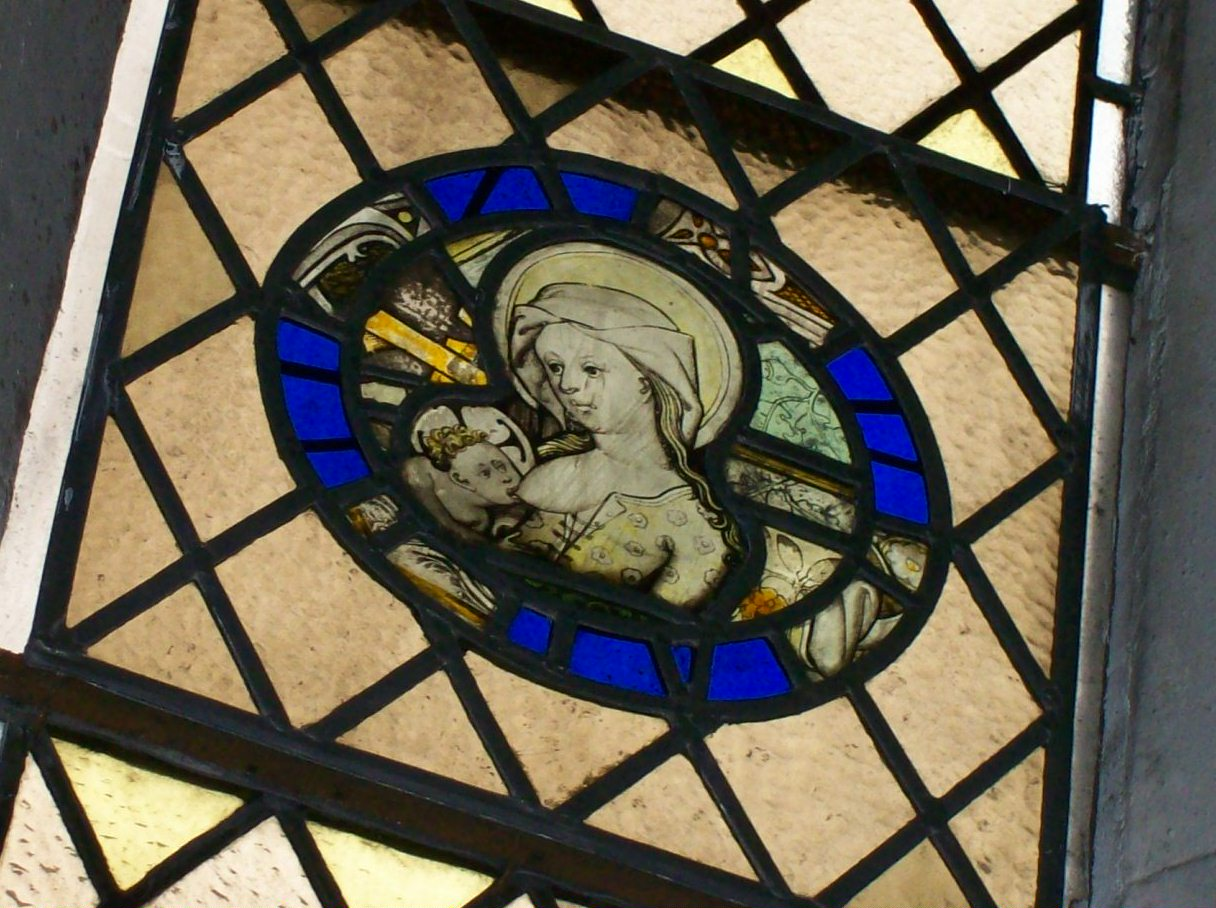 Medieval stained glass roundel of Madonna and Child, Newcastle cathedral